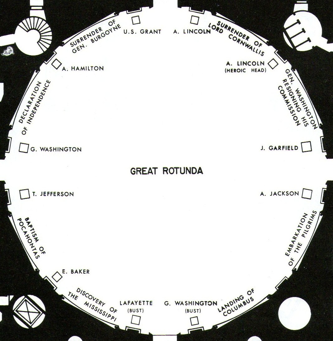 Detail from a floor plan of the area around the "Great Rotunda" in the United States Capitol building in Washington, D.C. The floor plan on this page is described by the source as "The Rotunda, second floor, showing locations of paintings, statues and busts". North is to the right (where the Senate wing of the Capitol is located); the House of Representatives wing (the southern end of the building) is to the left. The Portico, on the East side of the Capitol (where the Visitors Center is located, and the direction of the U.S. Supreme Court building and Library of Congress), is toward the bottom. The Mall is toward the top.